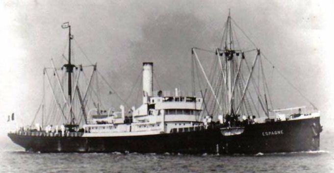 Photograph of the Belgian cargo ship Espagne, which was launched in 1909 and torpedoed and sunk in 1917.